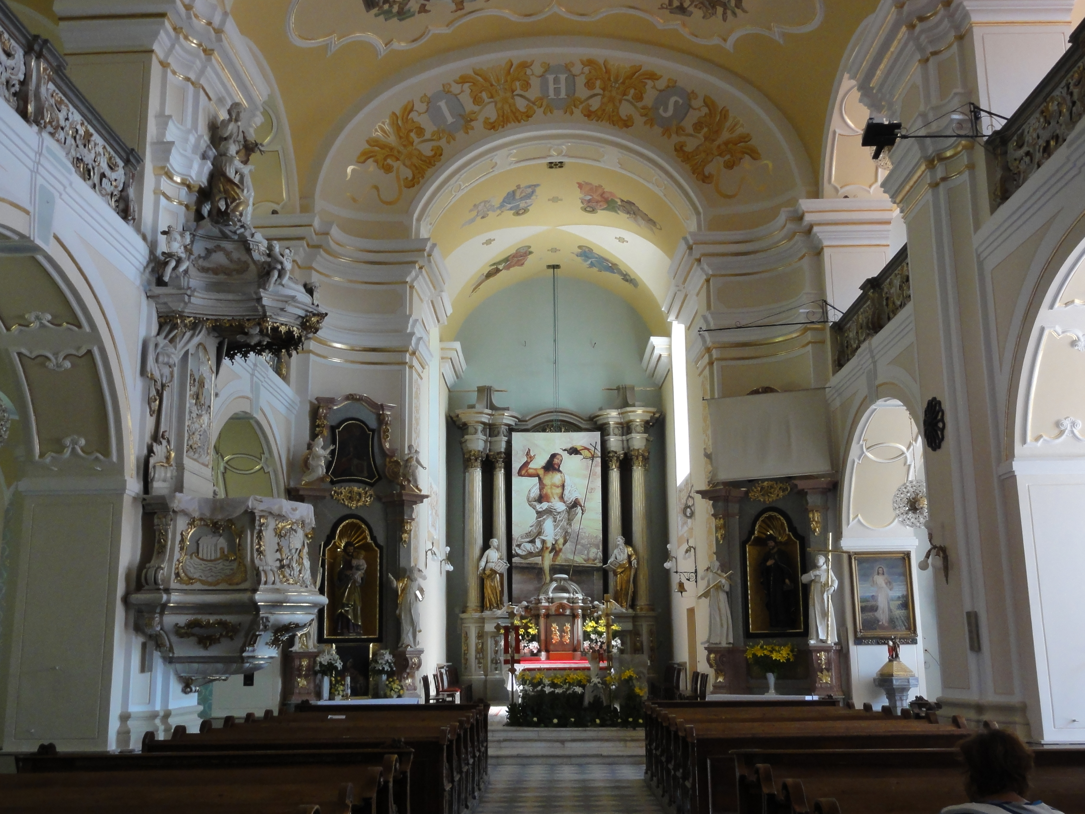 Interior of Church of SS. Peter and Paul in Skoczów